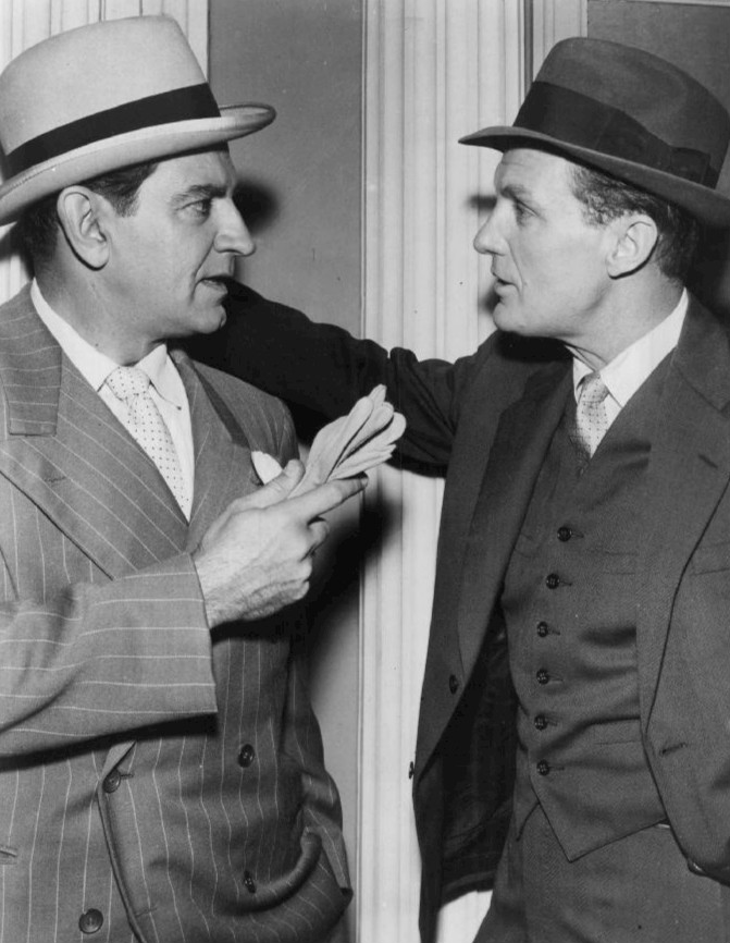 Photo of Bruce Gordon as Frank Nitti and Robert Stack as Eliot Ness in a scene from the television program The Untouchables.